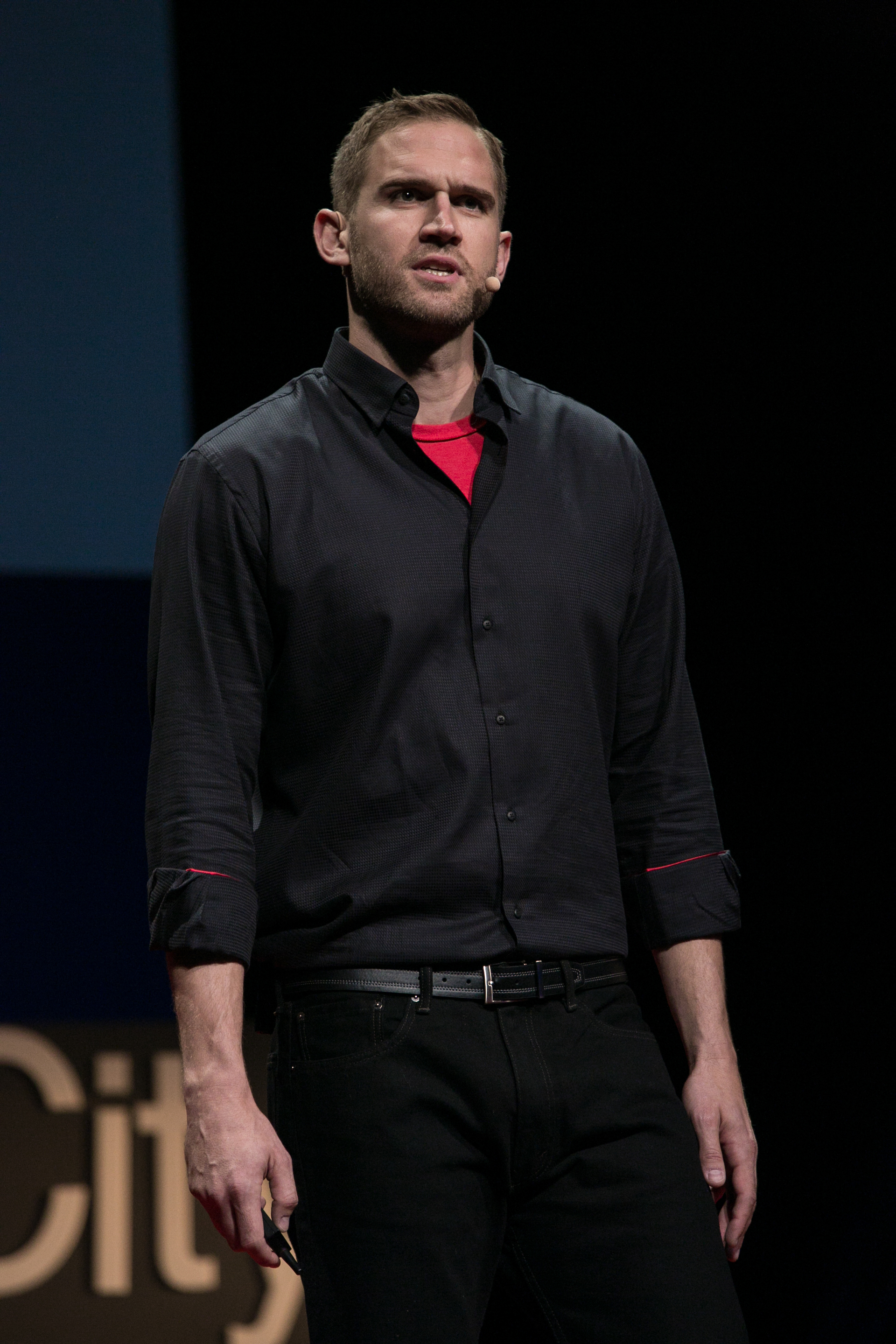 Lance Allred speaking at TEDx SaltLakeCity 2016